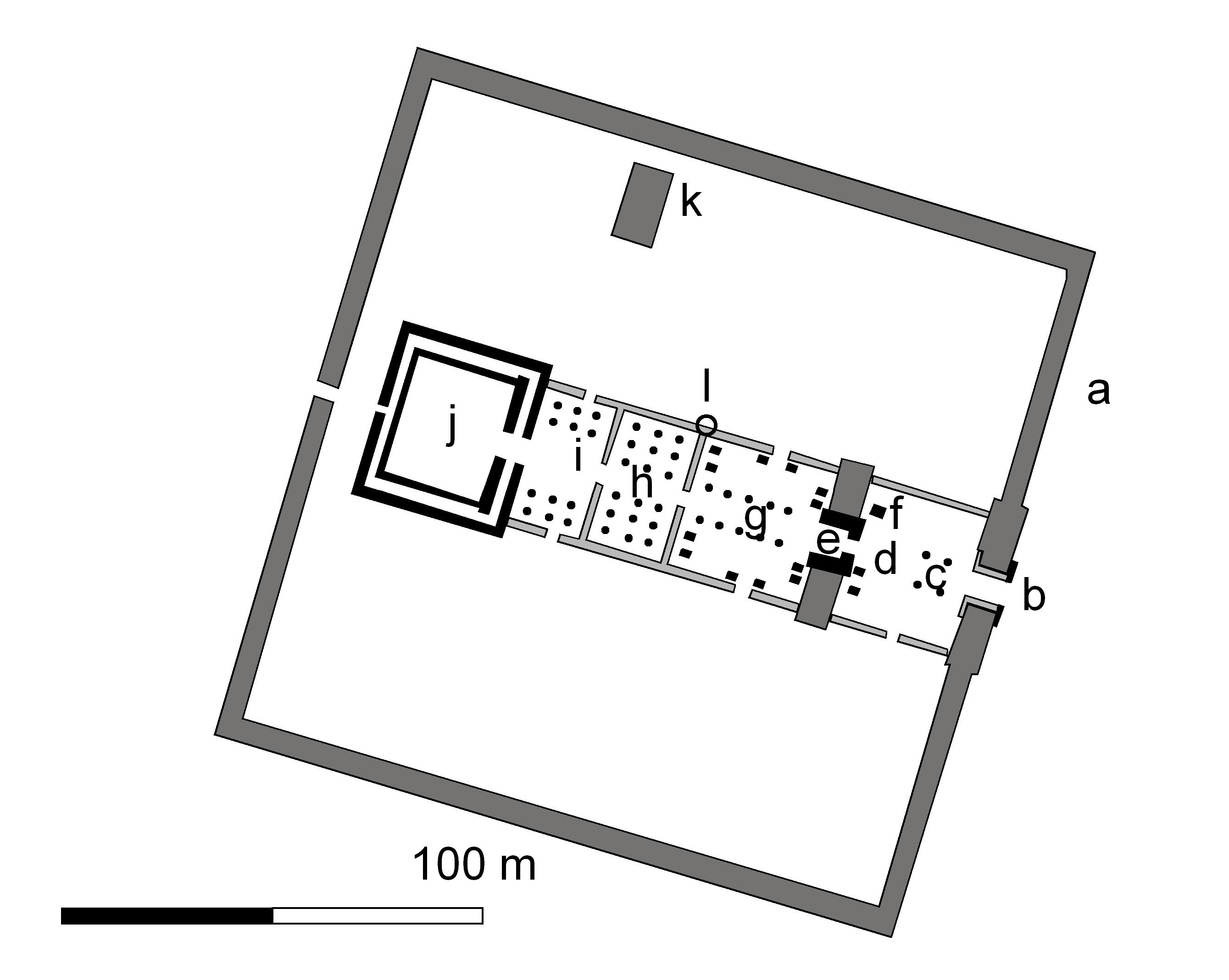 Bastet temple at Bubastis, hypothetical plan: a. enclosure wall; b. gate of Osorkon I; c. palm tree columns; d. first court; e. pylon of Osorkon II; f. statue of queen Karomama; g. second court; h. hall; i. hall with Hathor pillars; j. sanctuary of Nectanebos II; k. temple of Mahes; l. Roman well plan according to M.I. Bakr, H. Brandl: Bubastis and the Temple of Bastet, in M. I. Bakr, H. Brandl, F. Kalloniatis (editors): Egyptian Antiquities from Kufur Nigm and Bubastis, Berlin 2010 ISBN 978-3-00-033509-9, picture on page 33